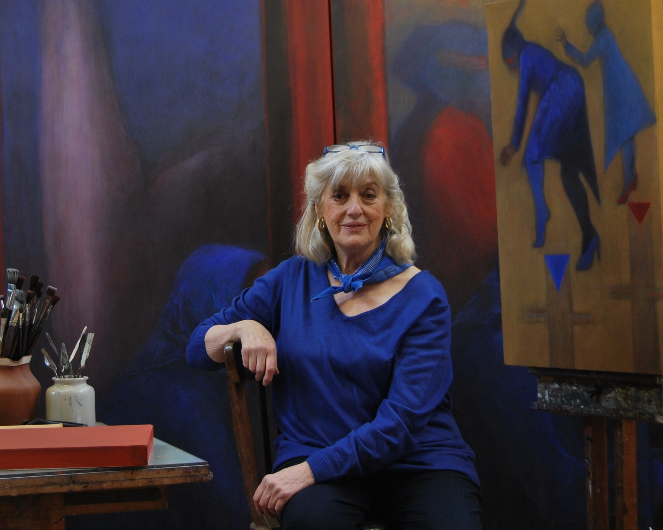 Photograph of Christine Kinsey